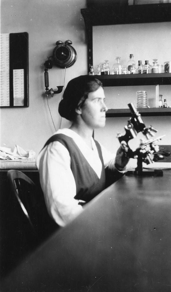 Estrella Eleanor Carothers (1883-1957) taught at the University of Pennsylvania from 1913-1933, and then continued her groundbreaking genetics research on the order Orthoptera at the University of Iowa from 1935 to 1941